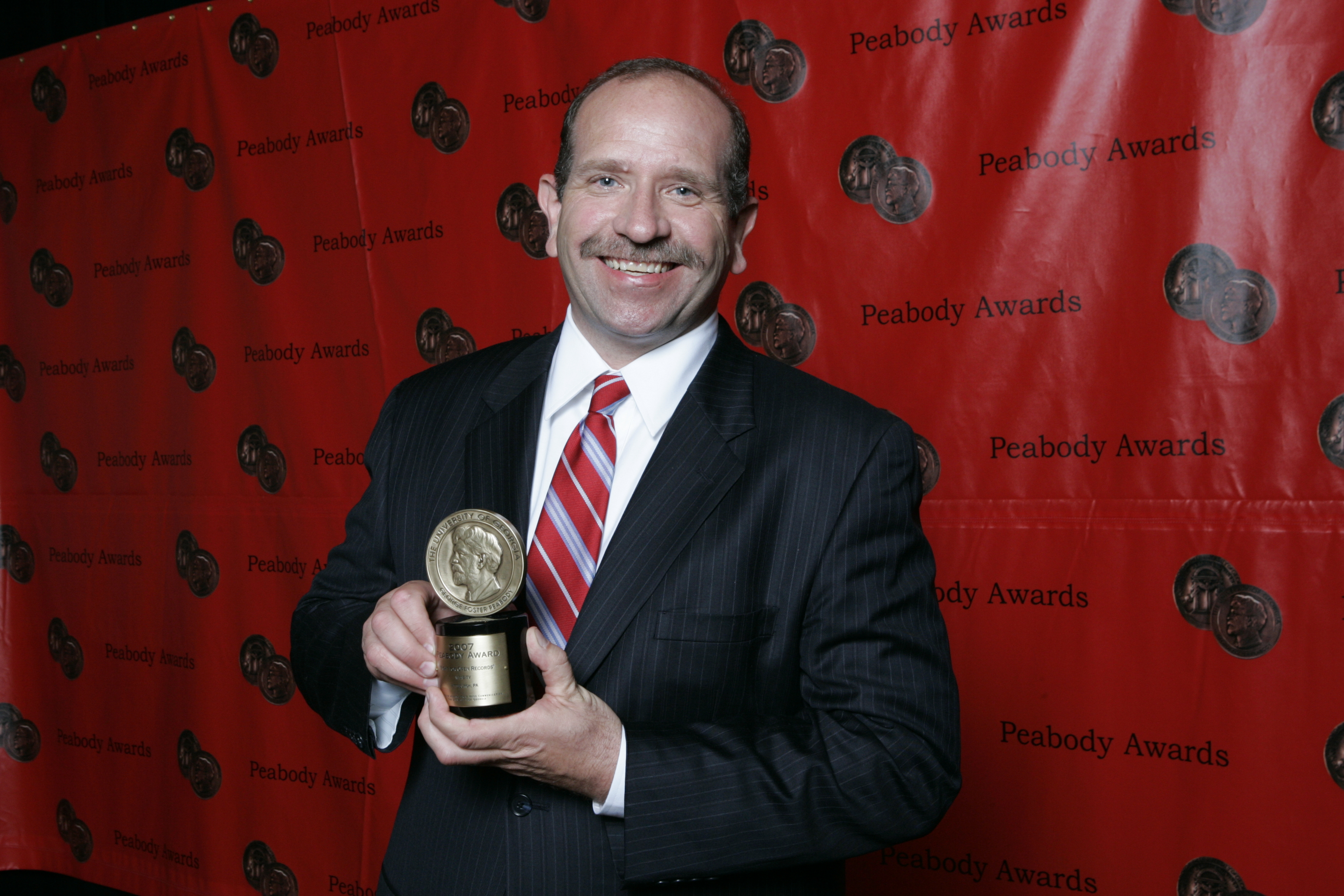 Jim Parsons 67th Annual Peabody Awards Luncheon Waldorf=Astoria Hotel New York, NY USA June 16, 2008